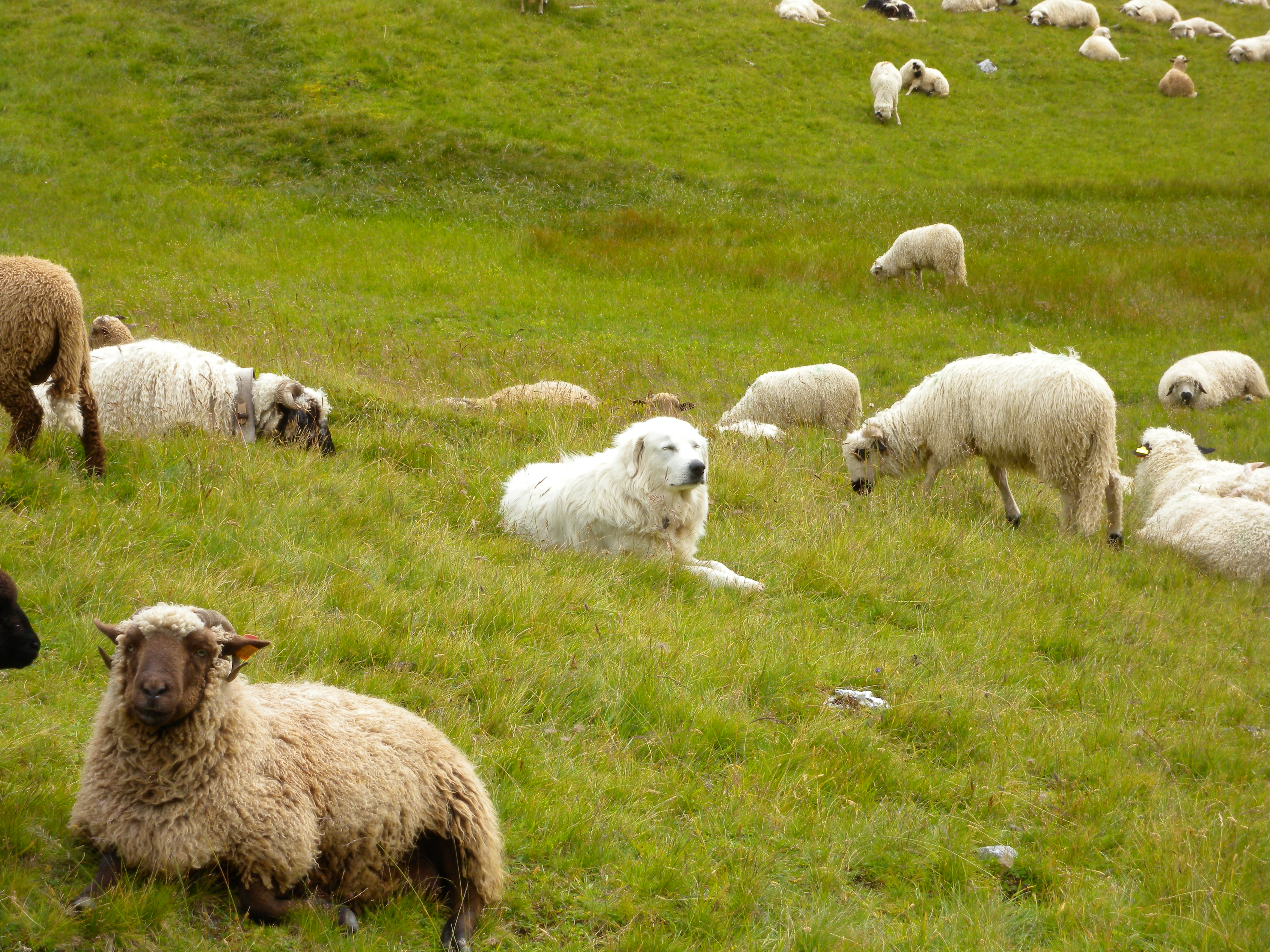 Pasture of Anterne, Sixt-Fer-à-Cheval, Pyrenean Mountain Dog among the sheeps